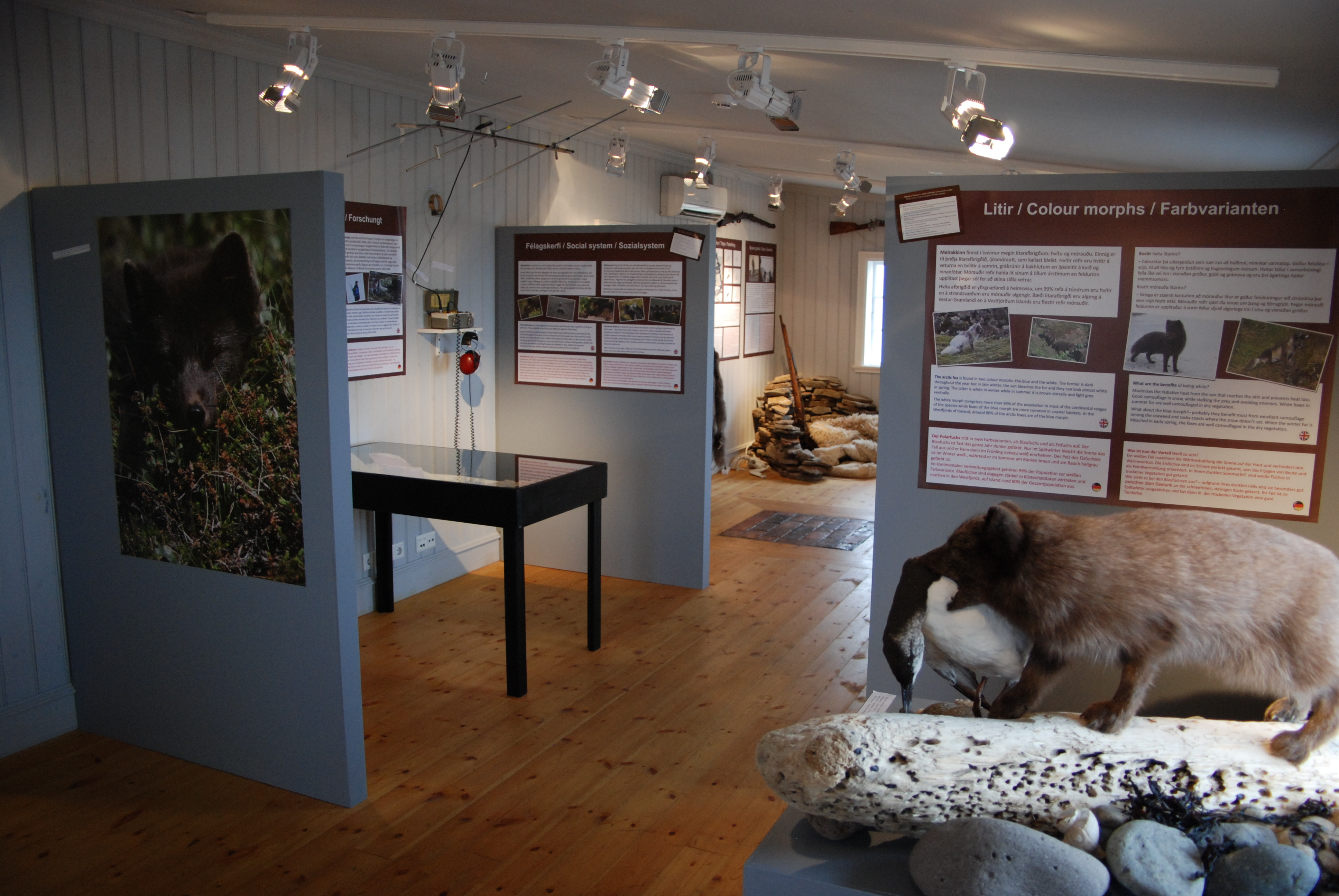 The museum of the Arctic Fox Center in Súðavík, Westfjords, Iceland